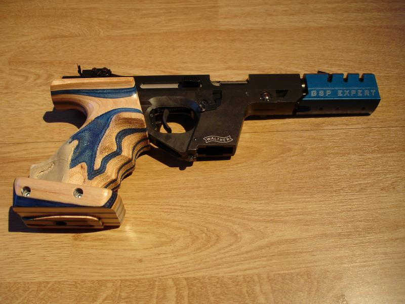 Walther GSP-Expert 22lr